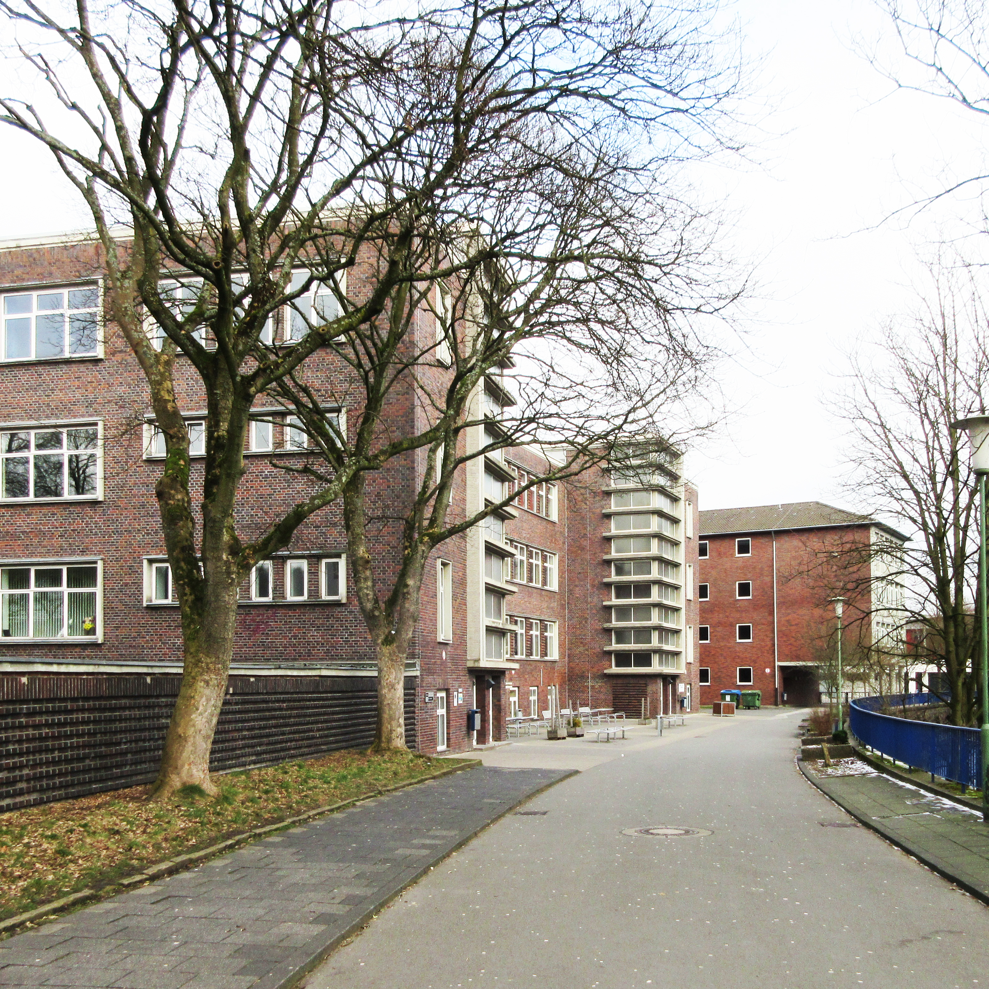 Christian Rohlfs School, Hagen/Germany This is a photograph of an architectural monument.